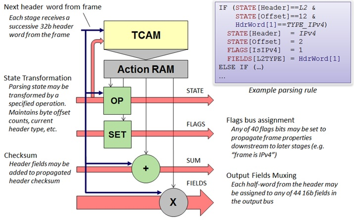 Flexpipe in FM6000